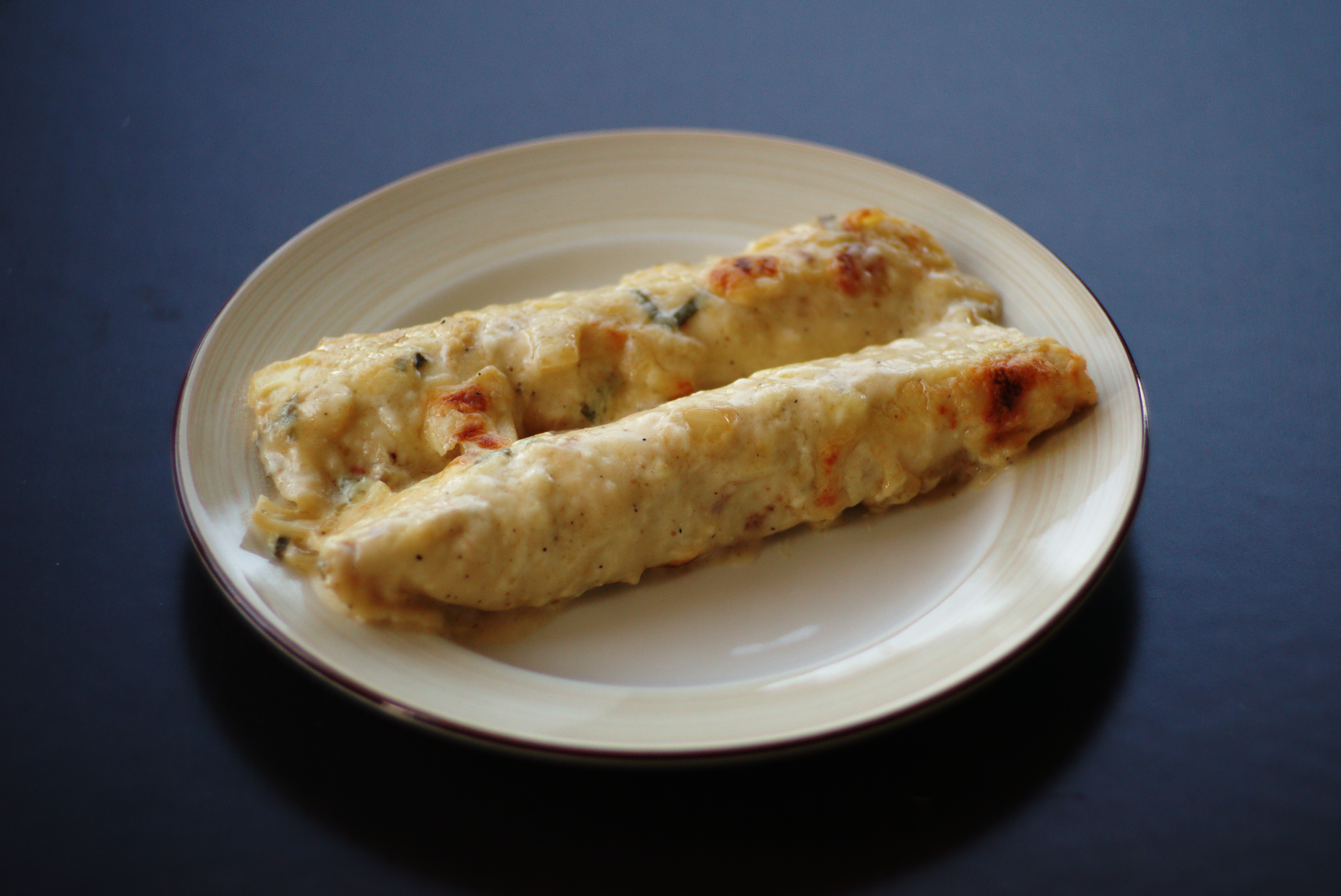 A plate of enchiladas. Enchiladas suizas (Swiss-style) are topped with a white, milk or cream-based sauce, such as béchamel. This appellation is derived from Swiss immigrants to Mexico who established dairies to produce cream and cheese.